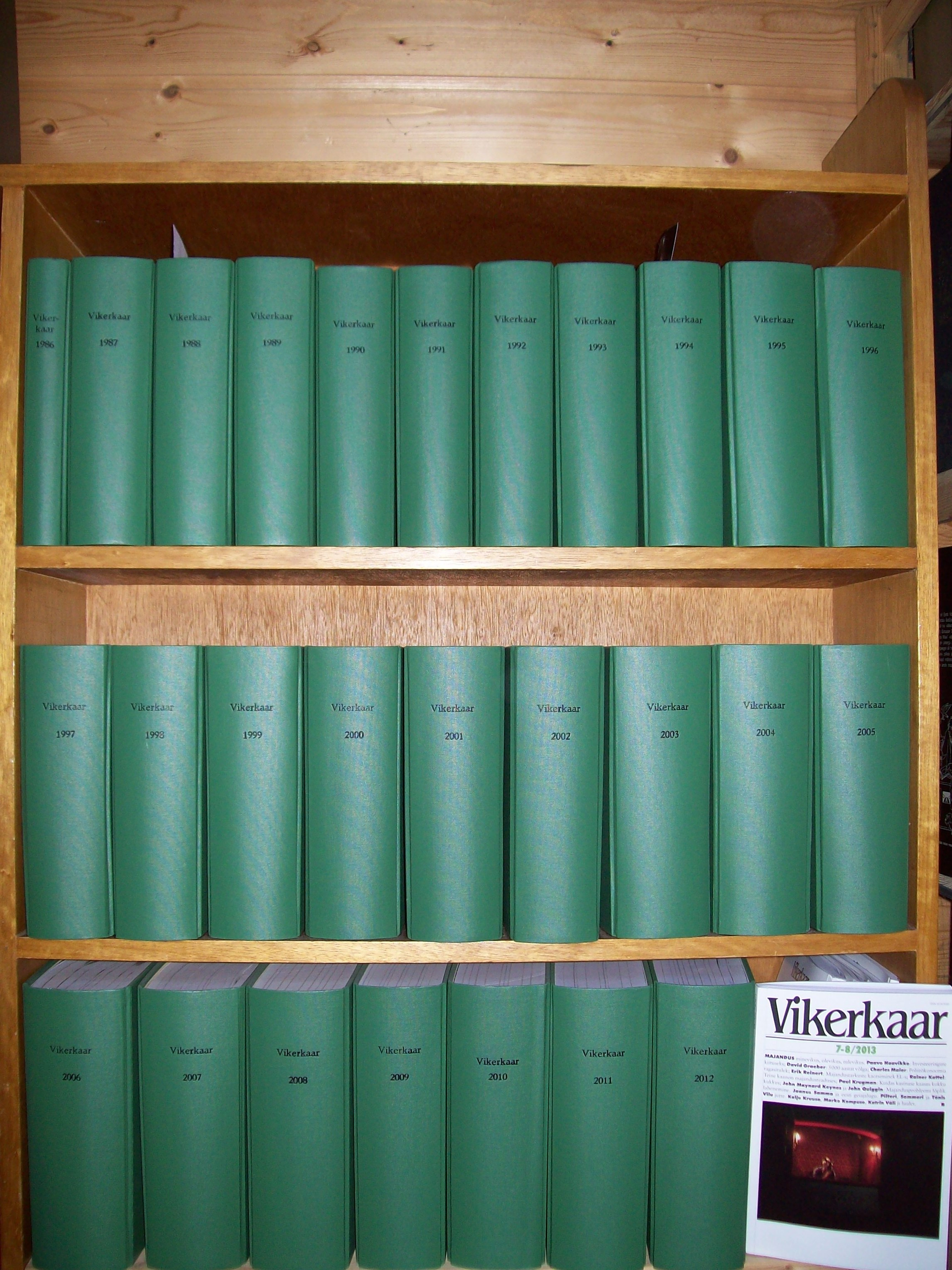 All editions of the Estonian monthly Vikerkaar ('Rainbow')from July 1986 onward